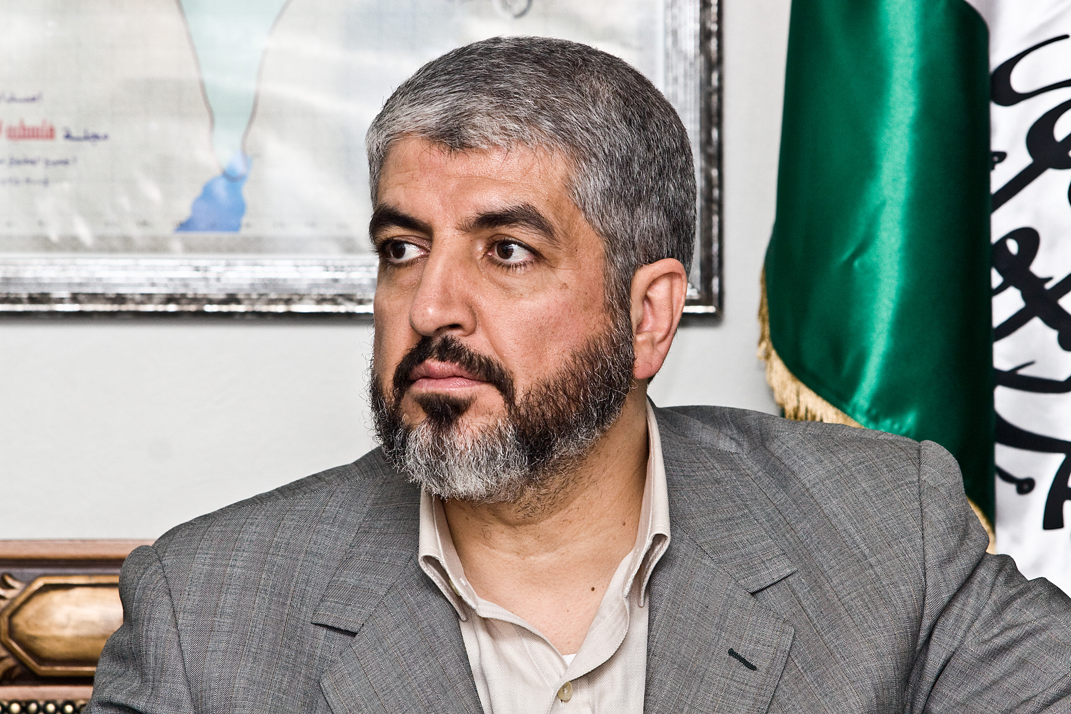 Khaled Meshaal in a meeting with Spanish journalists